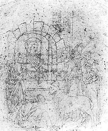 St George 16th century image produced from Anthivolon